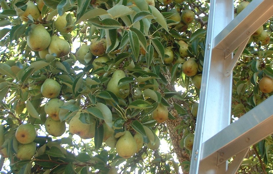 Bartlett pear, British Columbia, Canada